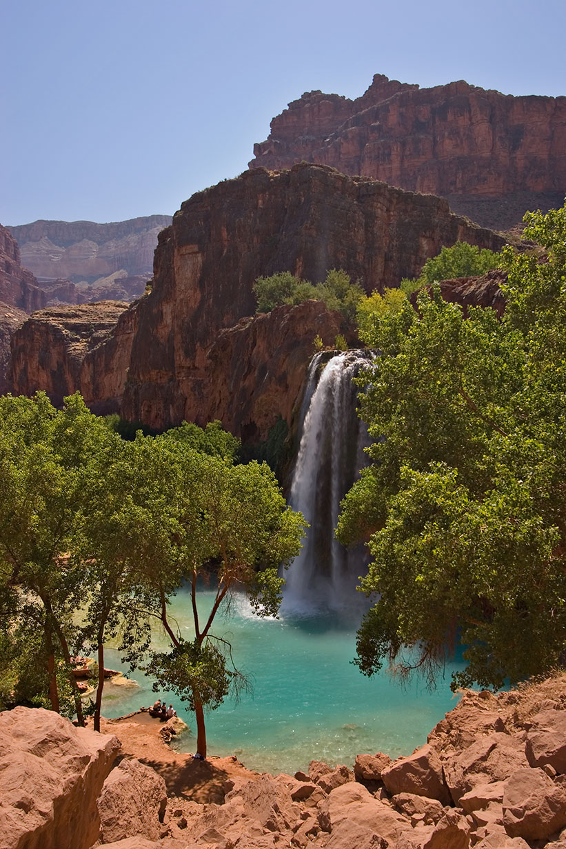 Havasu Falls near Supai, Arizona. The water is blue/green due to high concentrations of dissolved limestone picked up as the water runs through the sedimentary rock of Havasu Canyon and the Grand Canyon.